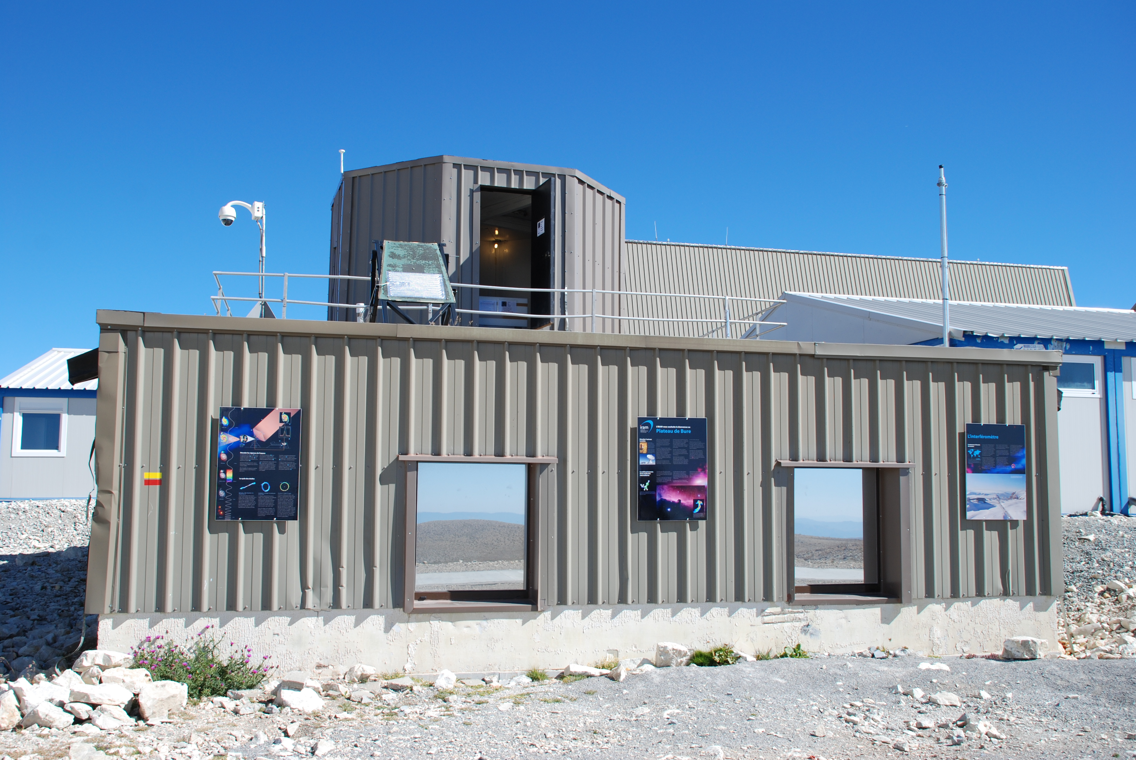 General view of the ASTEP platform main bulging